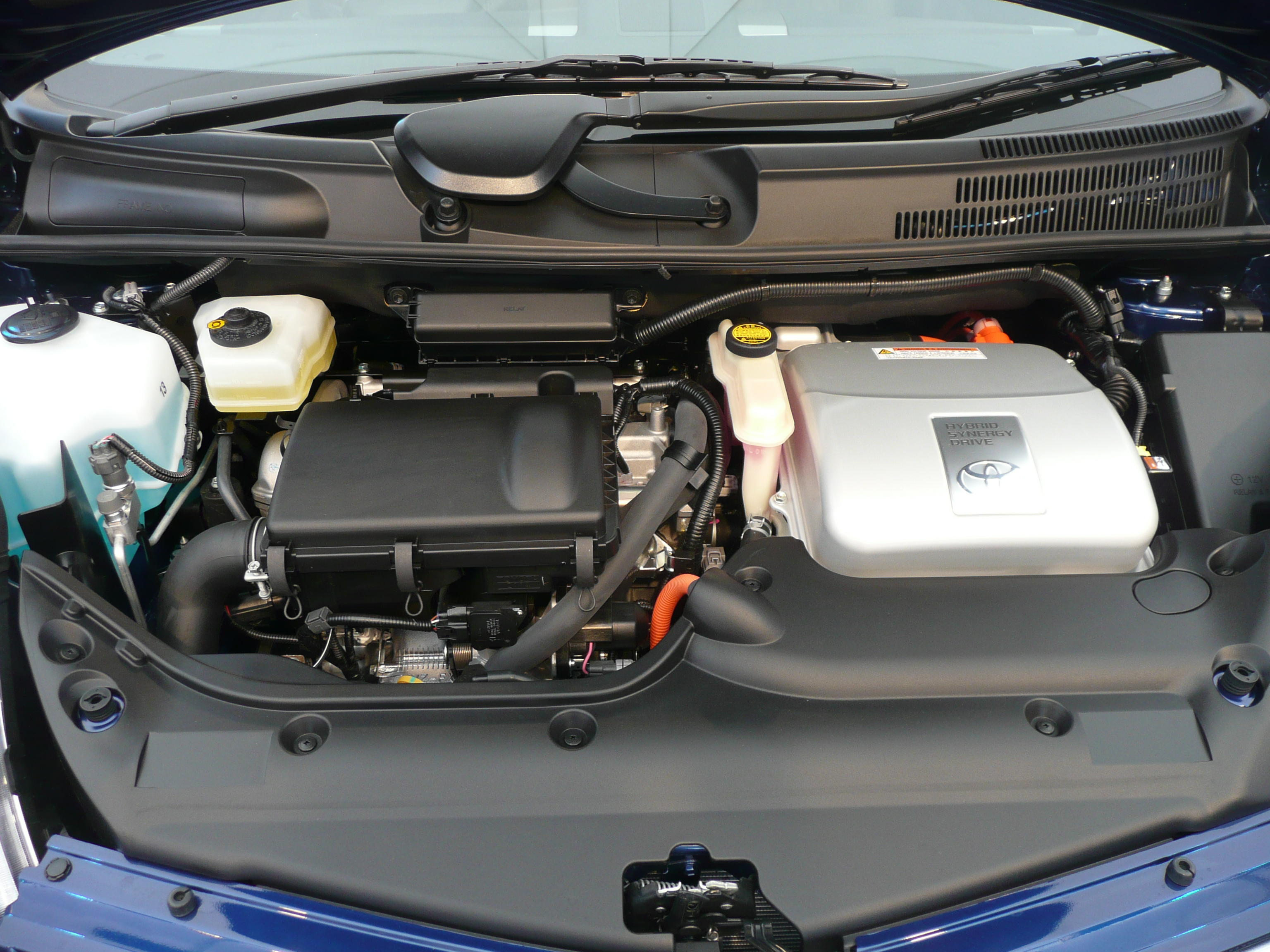 2008 Toyota Prius (NHW20R) liftback. Photographed at the 2008 Australian International Motor Show, Sydney, New South Wales, Australia.